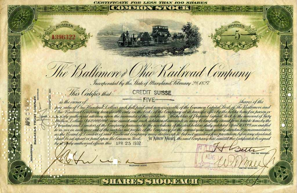 A certificate of five registered shares of the Baltimore and Ohio Railroad Company (1827) issued to Credit Suisse.